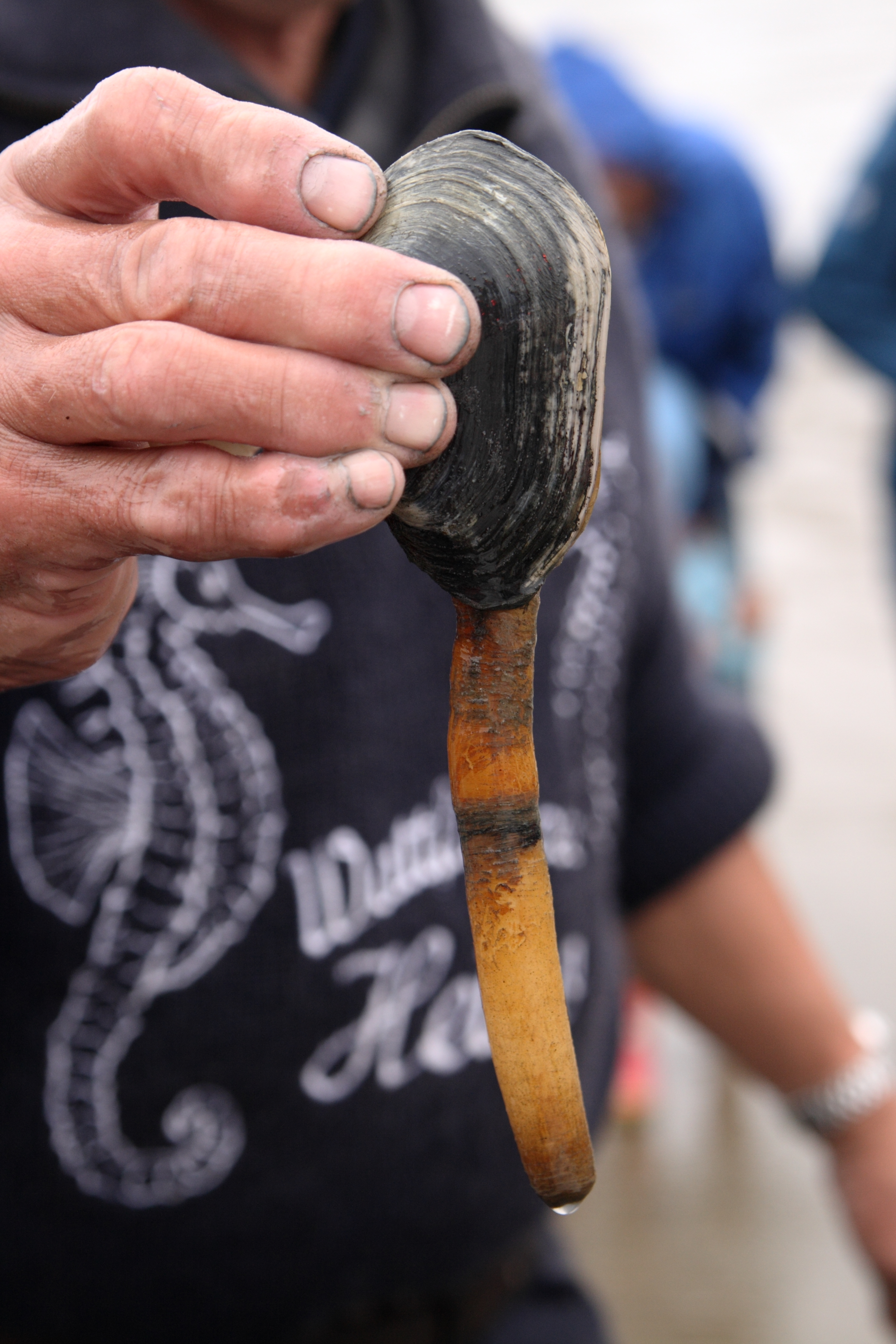 Soft-shell clam with siphon held in hand